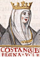 Miniature of Constance of Burgundy, second wife of Alfonso VI of Leon and Castile